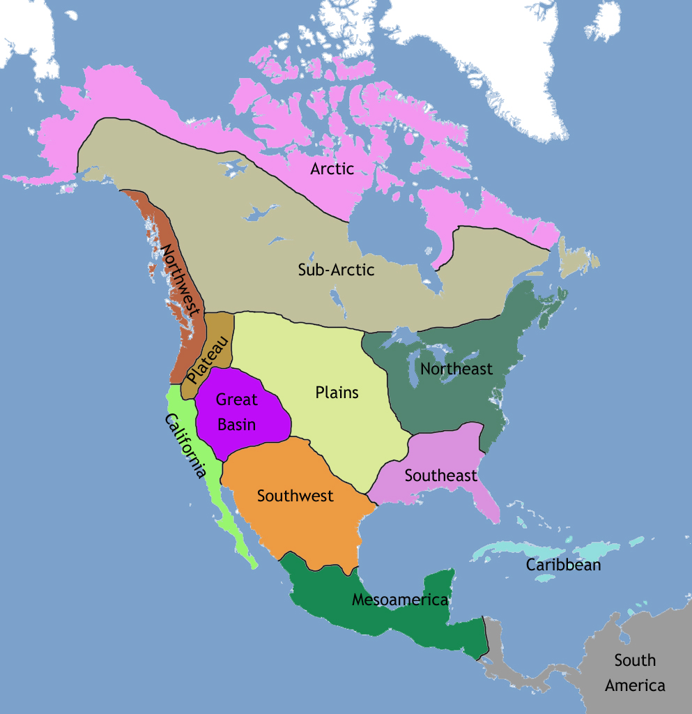 A map of North America showing the regions of Native American cultures.